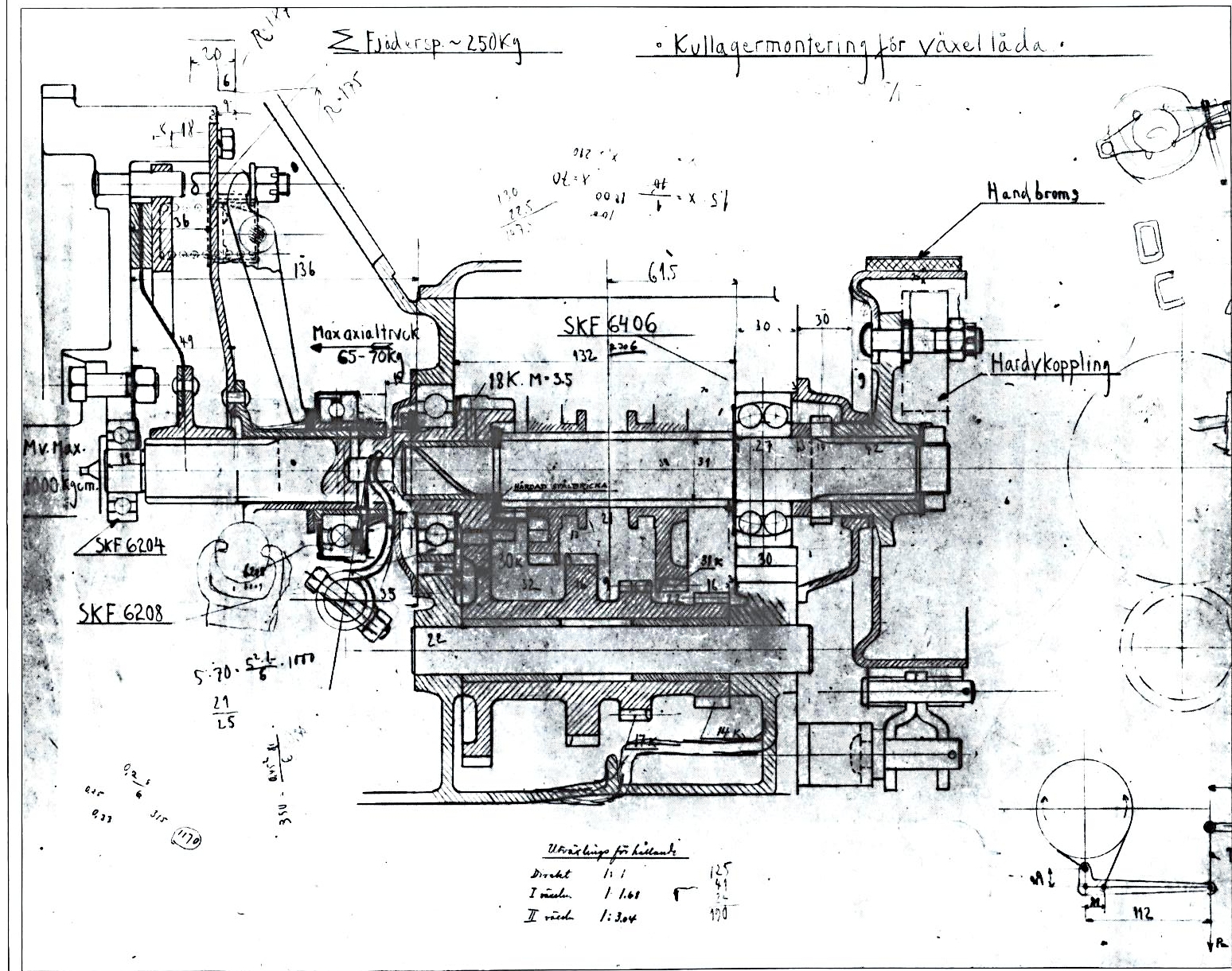 Sketch by Jan G. Smith (1895-1966) showing the first layout of the non-synchronized gearbox for Volvo model ÖV4 and some notes, such as selection of SKF-bearings, gear ratios for the 3 gear stages forward (first, second, third: 1:1,61/1:1,304/1:1), max. torgue (100 Nm), handbrake drum arrangement etc.